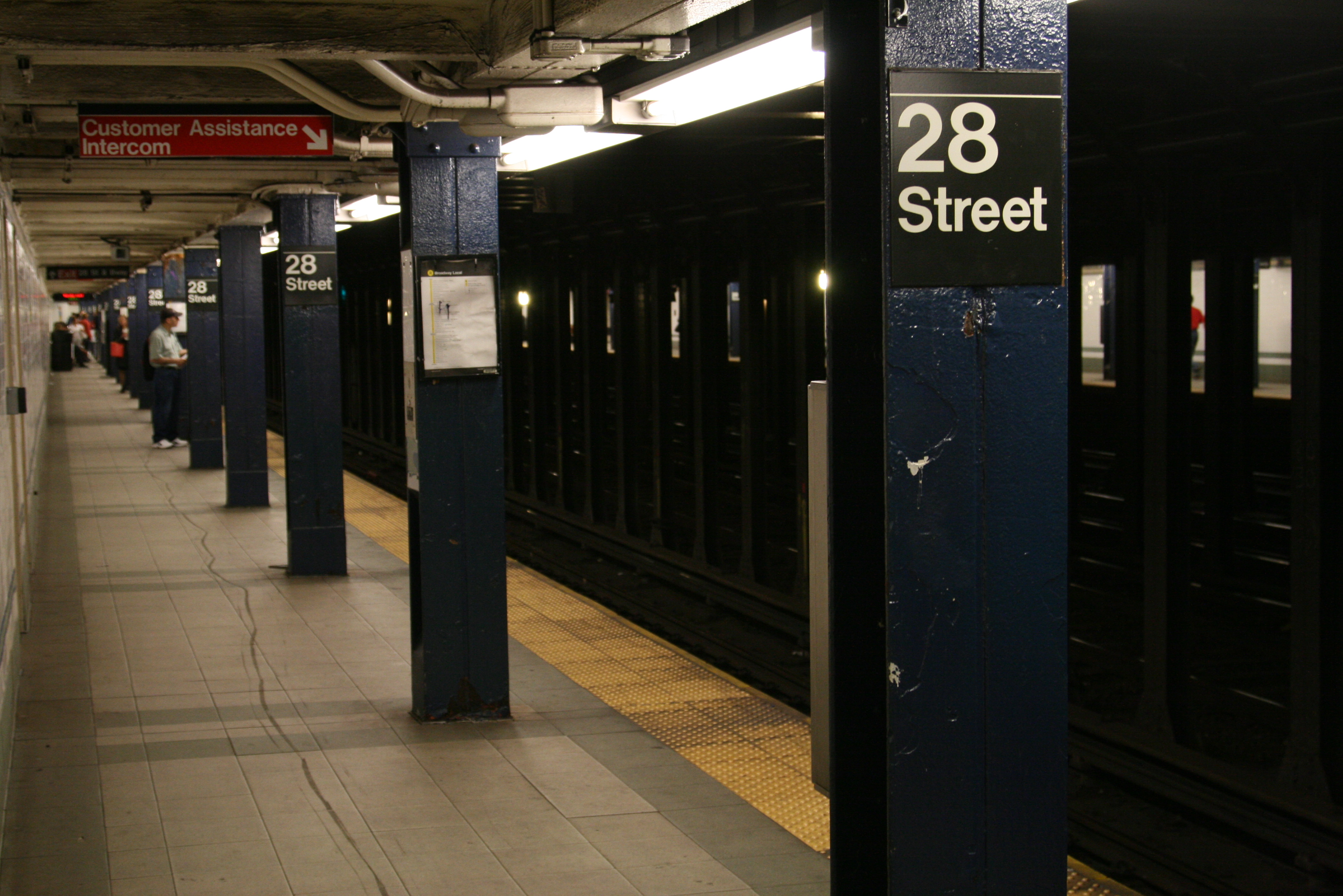 28 Street